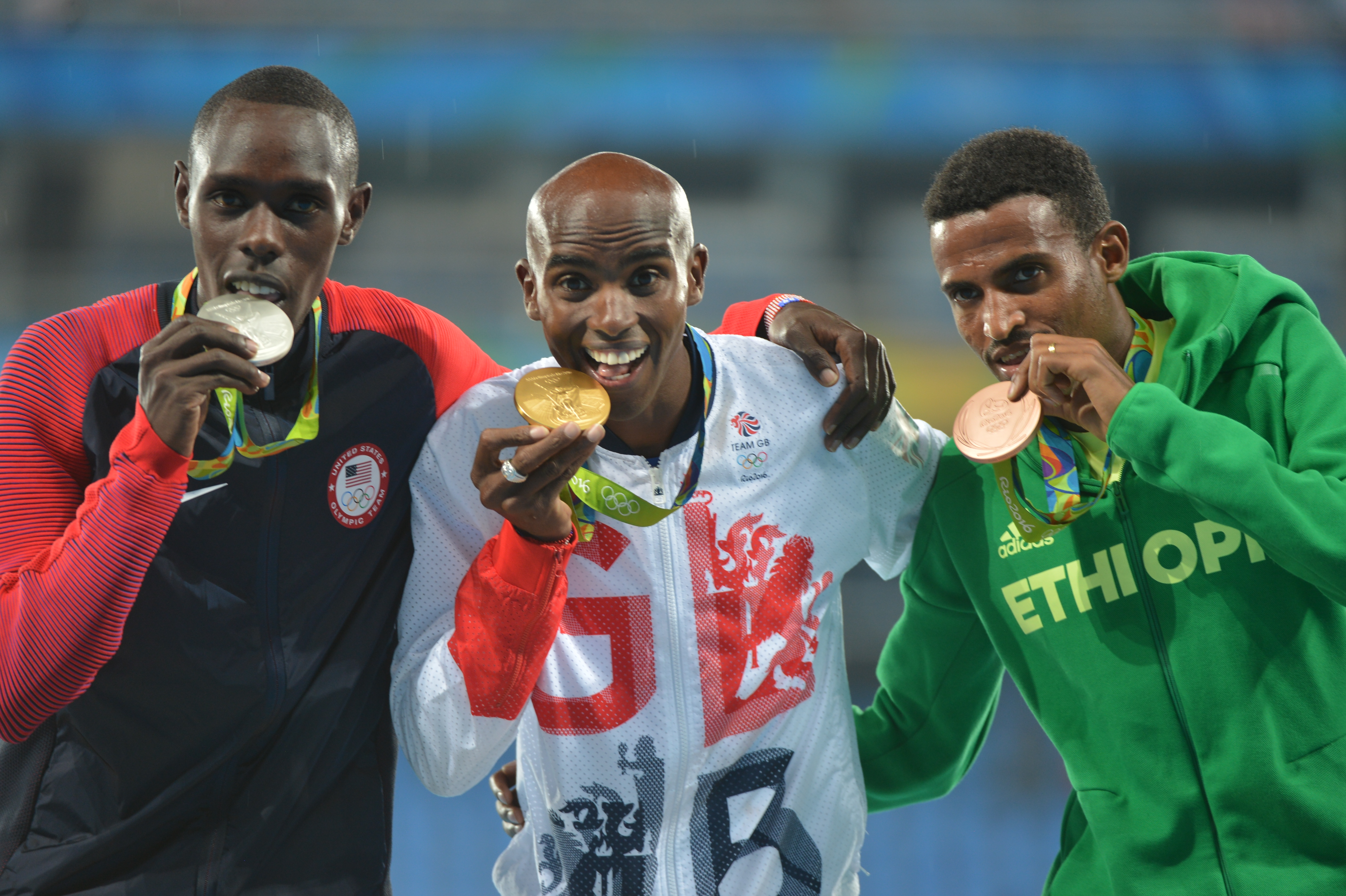 A scene from the Rio Olympic Games men's 5,000-meter run medal ceremony for silver medalist Spc. Paul Chelimo of the U.S. Army World Class Athlete Program, gold medalist Mo Farah of Great Britain and bronze medalist Hagos Gebrhiwet of Ethiopia on Aug. 20 at Olympic Stadium in Rio de Janeiro. U.S. Army photo by Tim Hipps, IMCOM Public Affairs